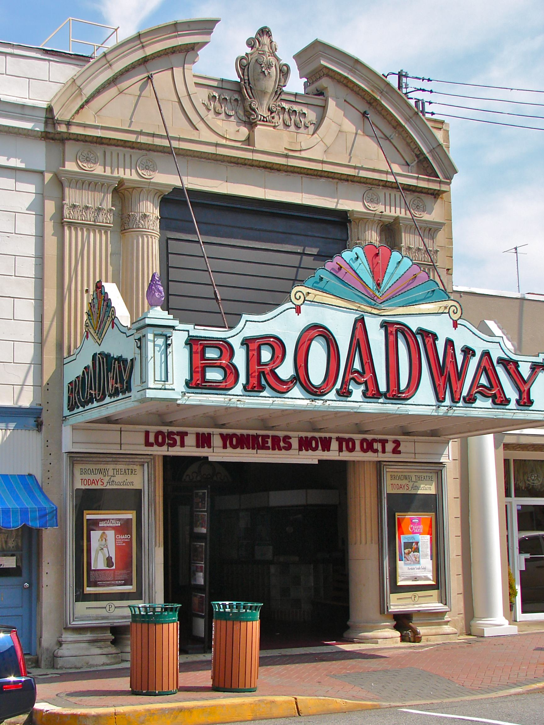 The Broadway Movie Theater on Broadway, Pitman, New Jersey. Near Pitman Grove.